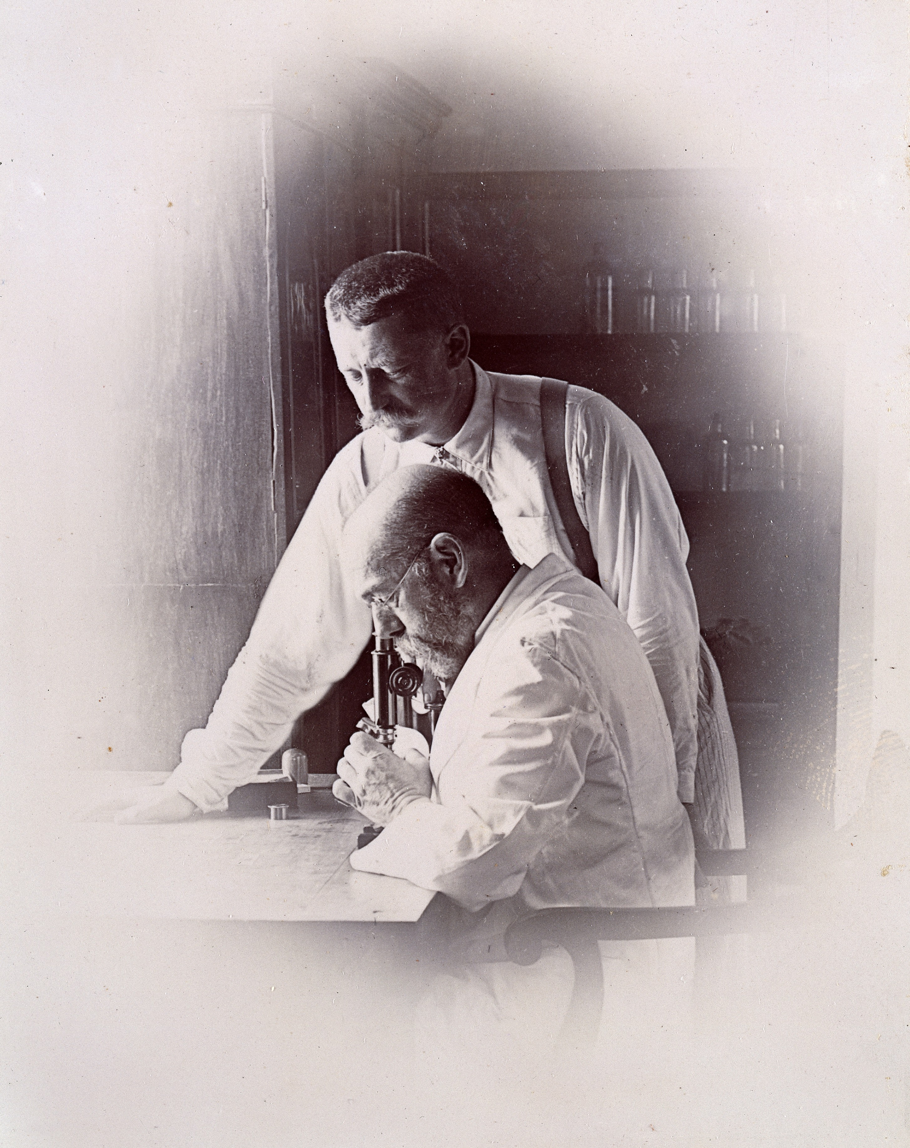 Professors Koch and Pfeiffer working in a laboratory, investigating the plague in Bombay. Photograph attributed to Captain C. Moss, 1897. Iconographic Collections Keywords: bombay; ic; icv 30405; koch; pfeiffer; Plague; Robert Koch; Richard Friedrich Johannes Pfeiffer; Bombay Plague Committee; C Moss